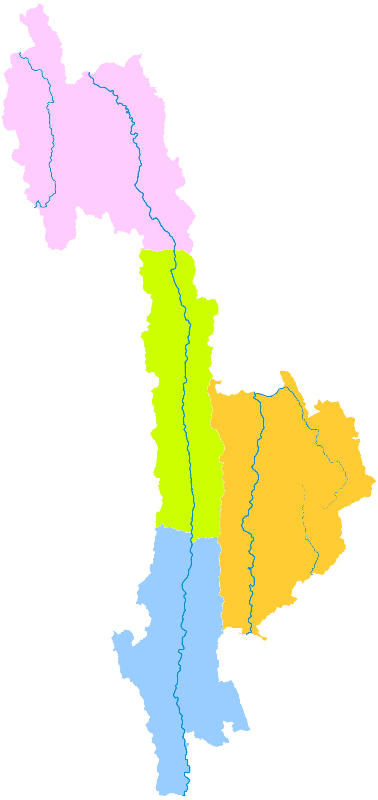 administrative divisions of Nujiang Lisu Autonomous Prefecture, Yunnan, China